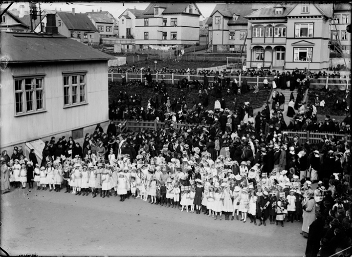 Showing a group of Icelanders celebrating women's suffrage in 1915. (Reykjavík Museum of Photography file image.)